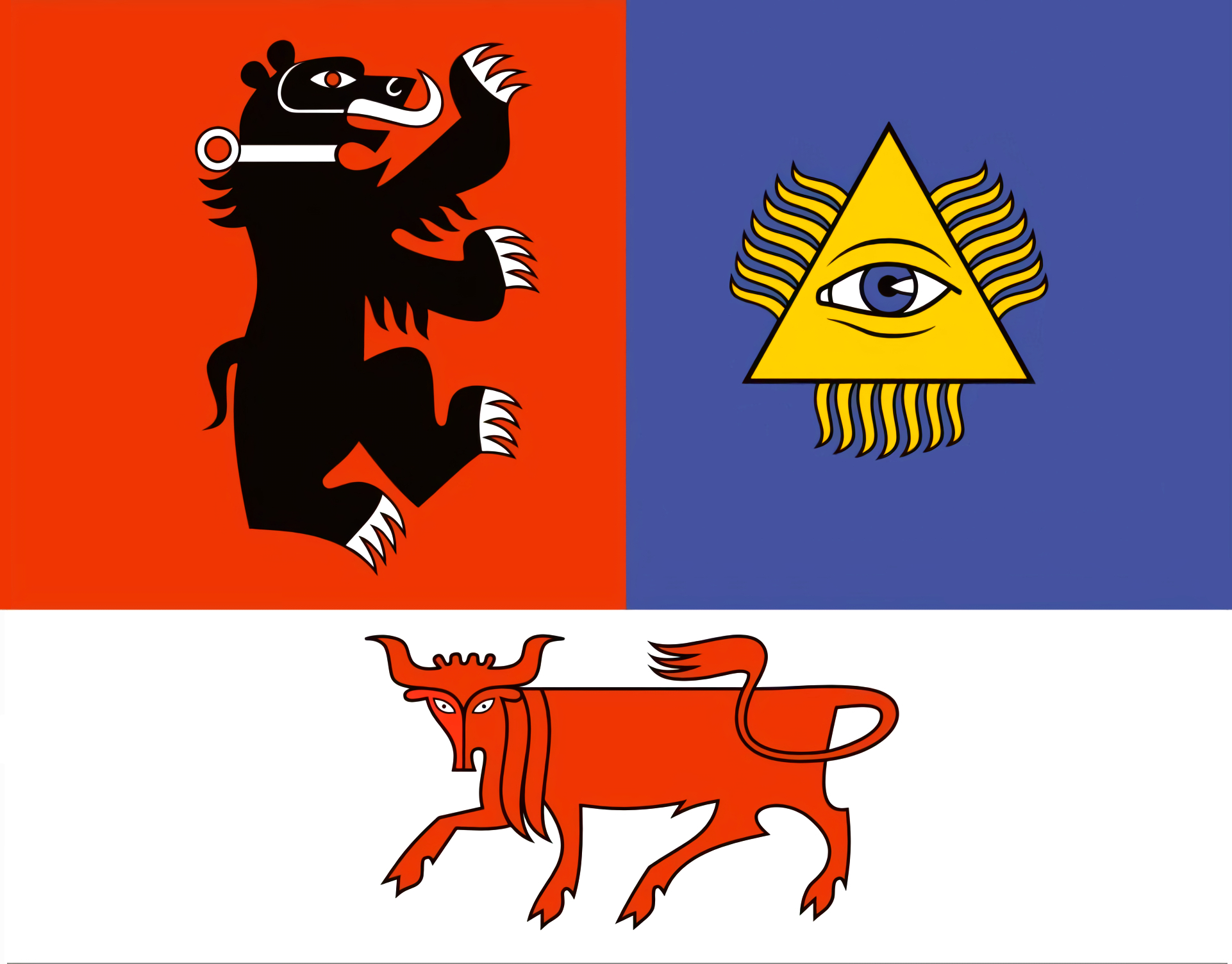 Flag of Šiauliai, Lithuania